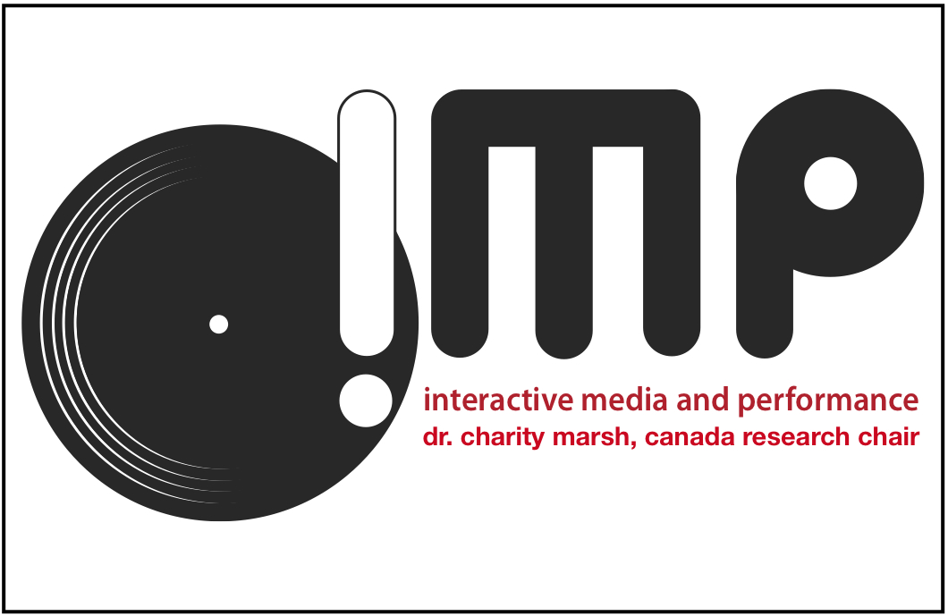 Interactive Media and Performance Labs official logo.